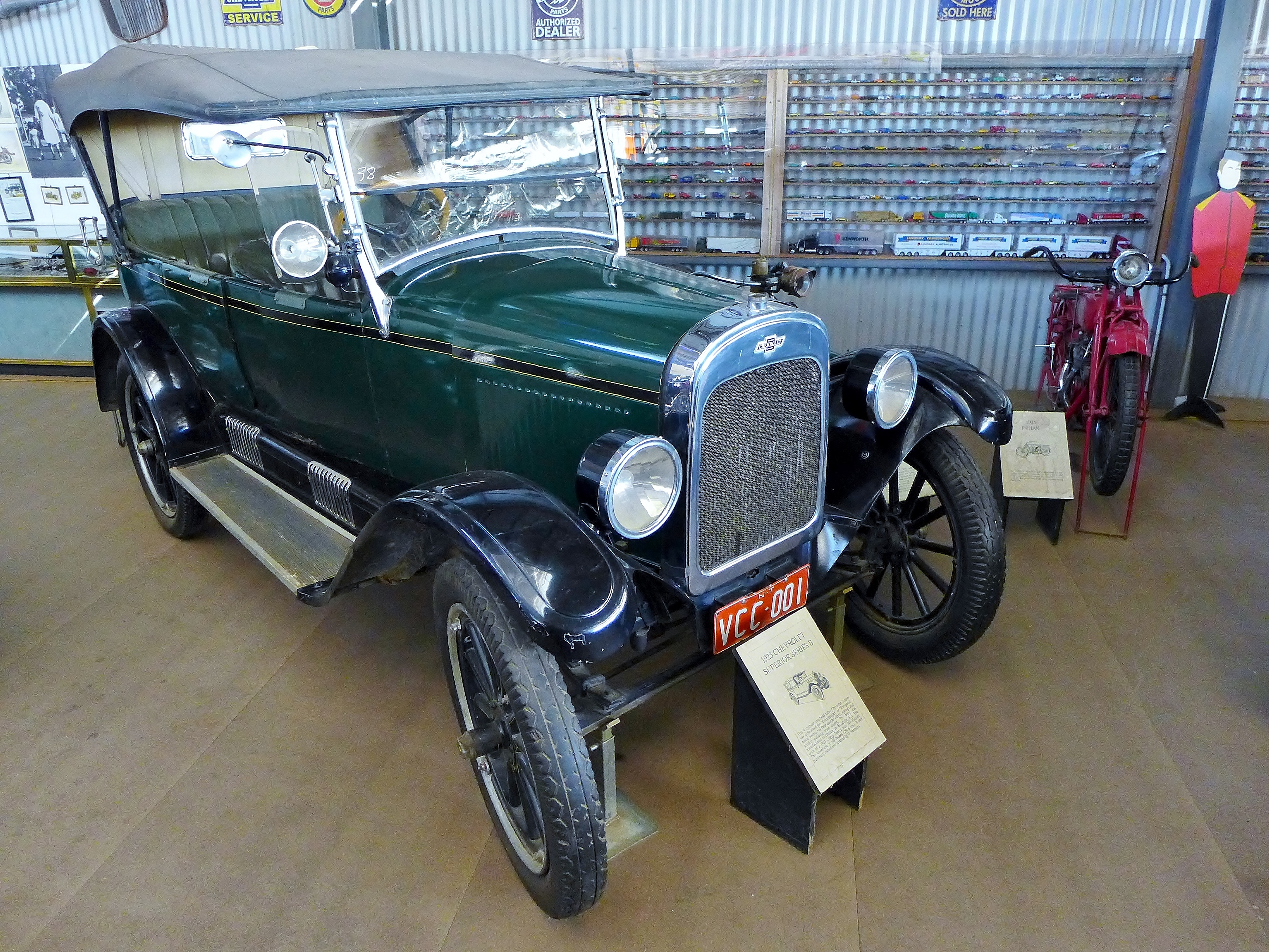 A 1923 Chevrolet Superior Series B Tourer, on display at the National Road Transport Hall of Fame, Alice Springs, NT, Australia.